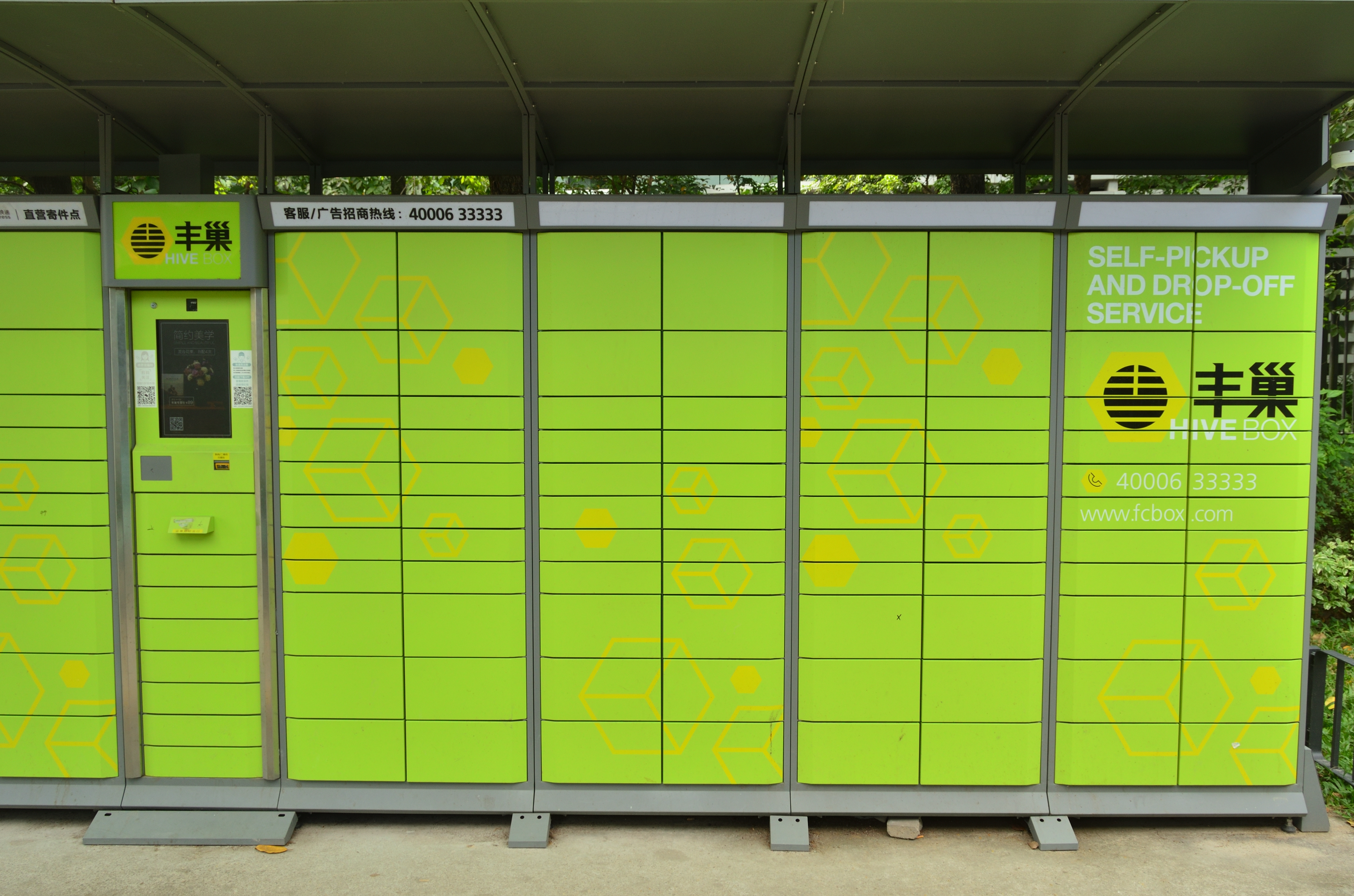 HiveBox in Shenzhen 中文（香港）: 豐巢快遞櫃 中文（中国大陆）: 丰巢快递柜